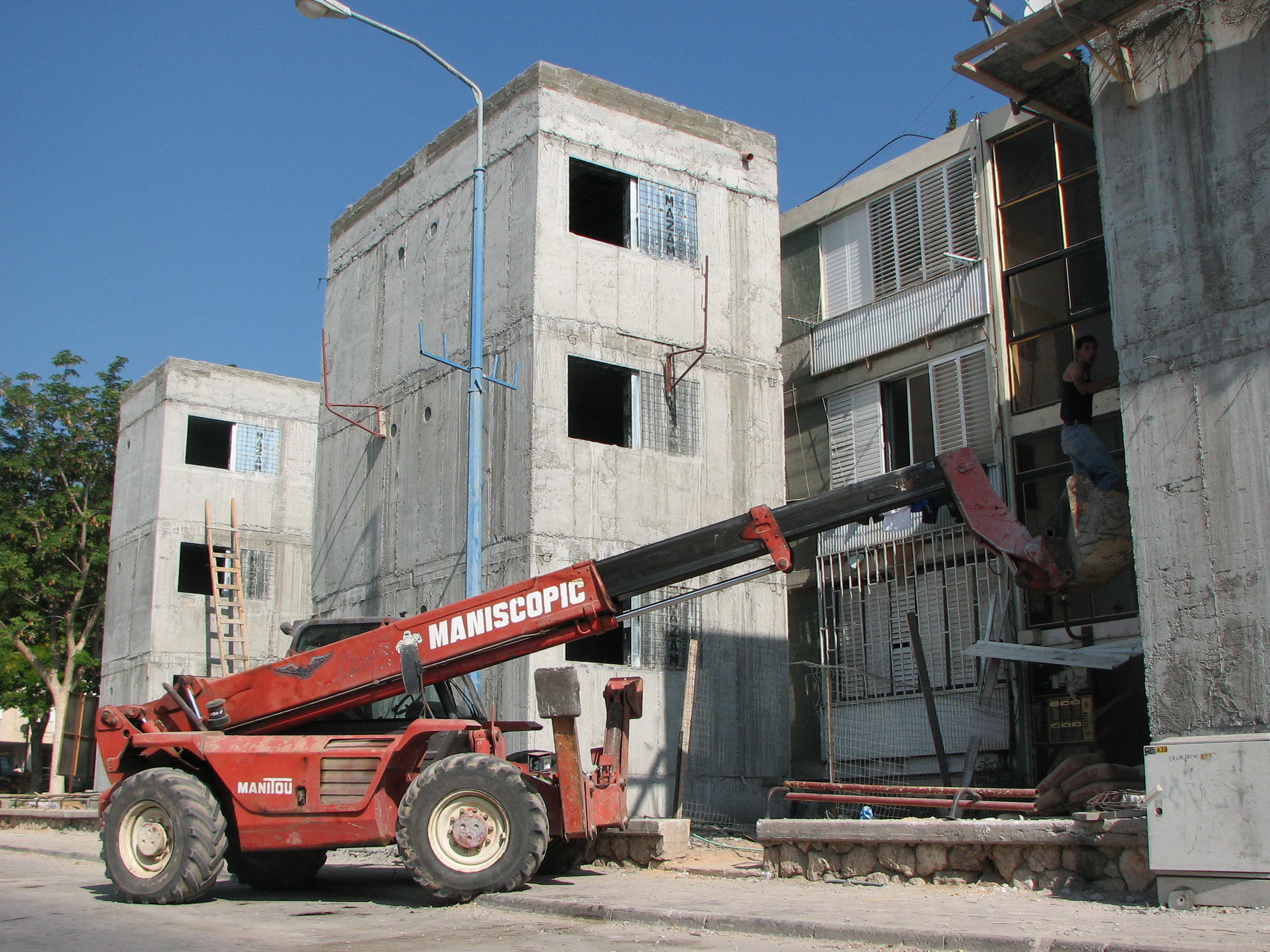 Building private bomb shelters in Sderot.